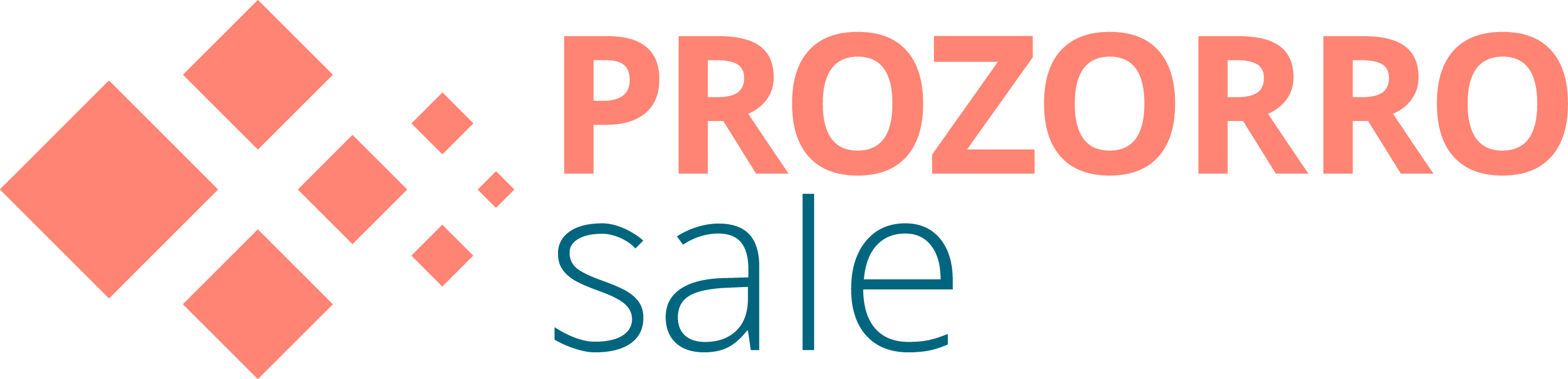 New logo for ProZorro.Sale